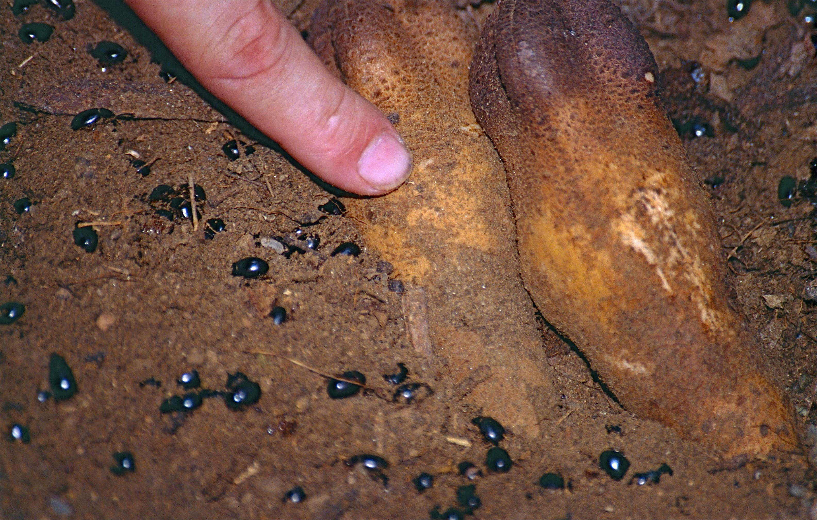 Réserve de Berenty, Amboasary Sud, MADAGASCAR Scanned Slide from 1998